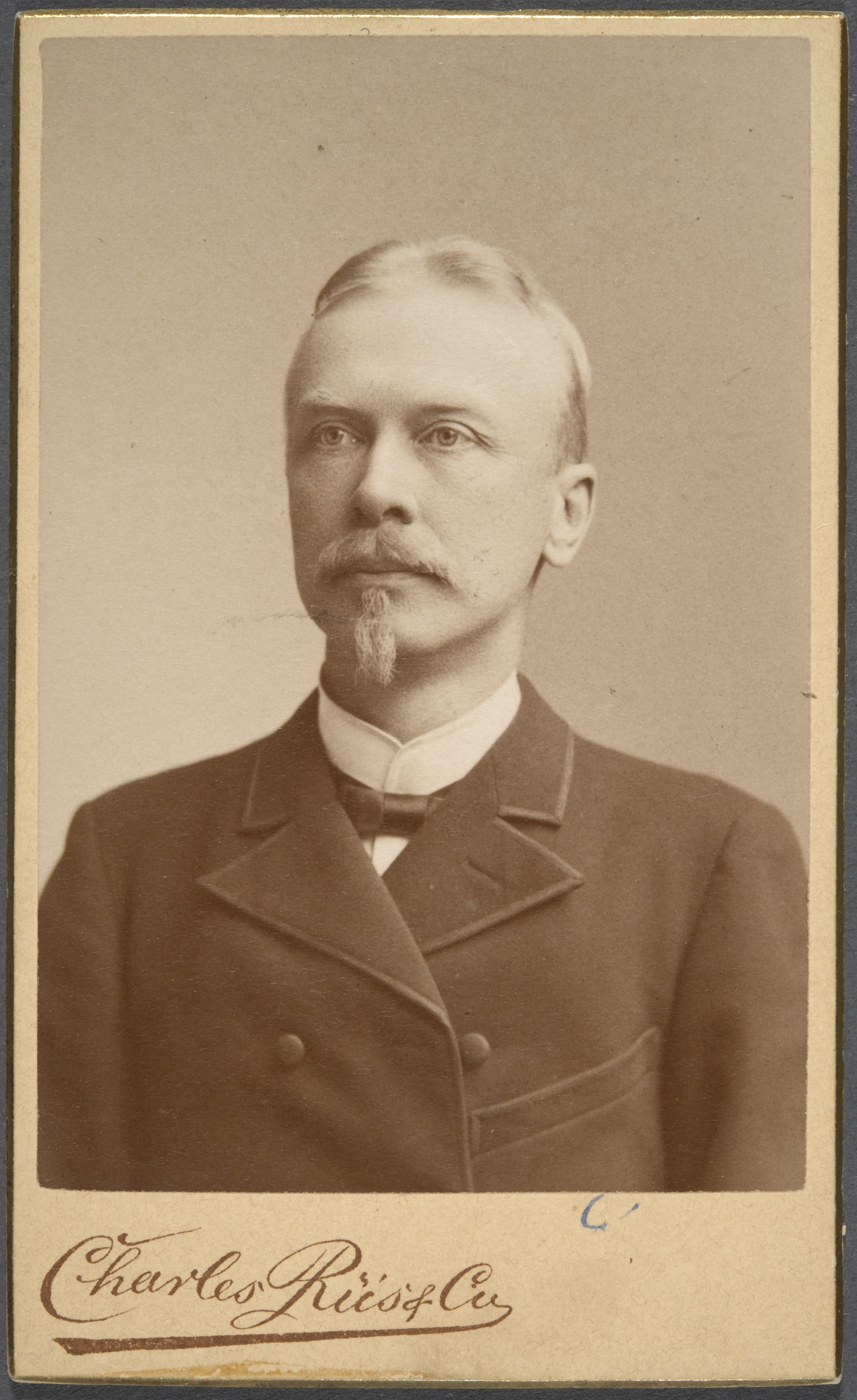 Photograph of the Finnish historian Werner Tawaststjerna (1848–1936).